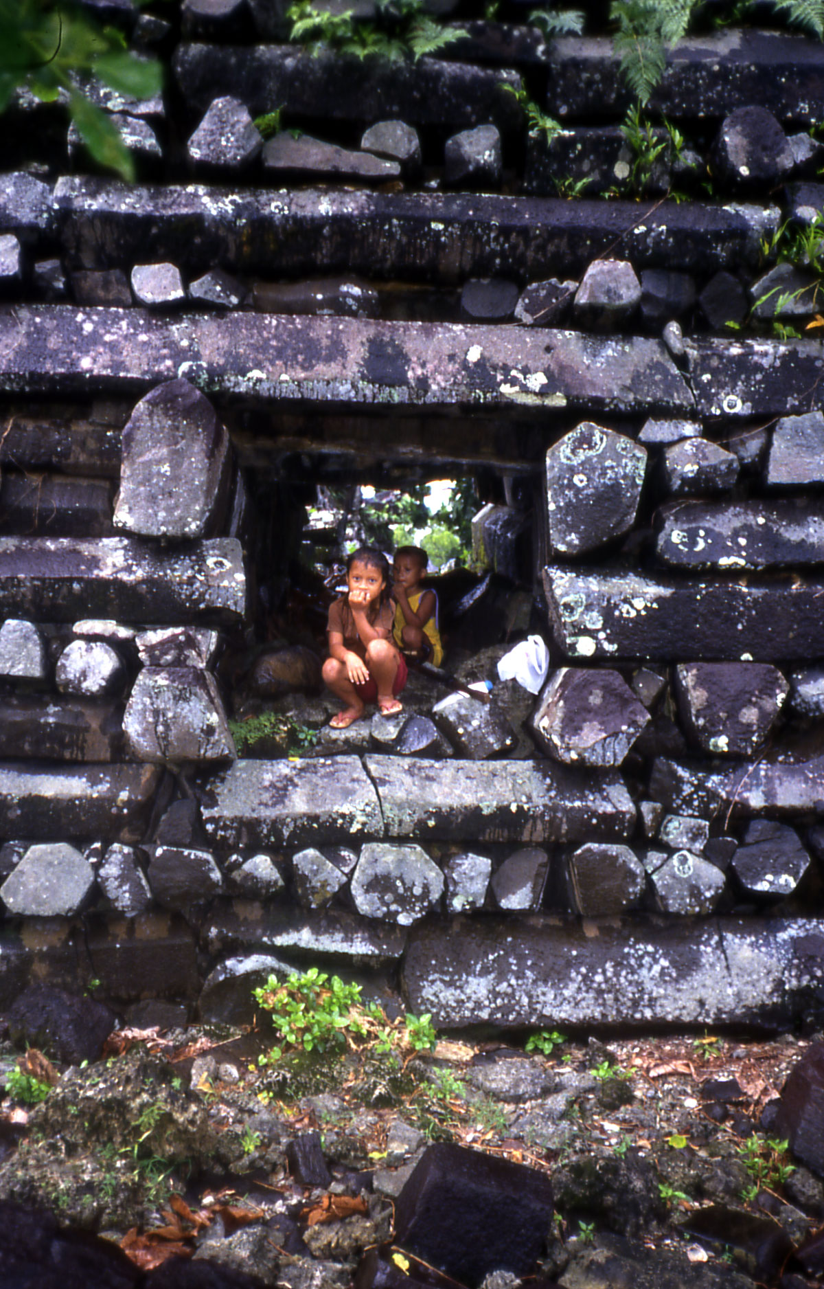 Two children in a passage hole through a thick basalt wall at Nan Modol, Pohnpei, Micronesia